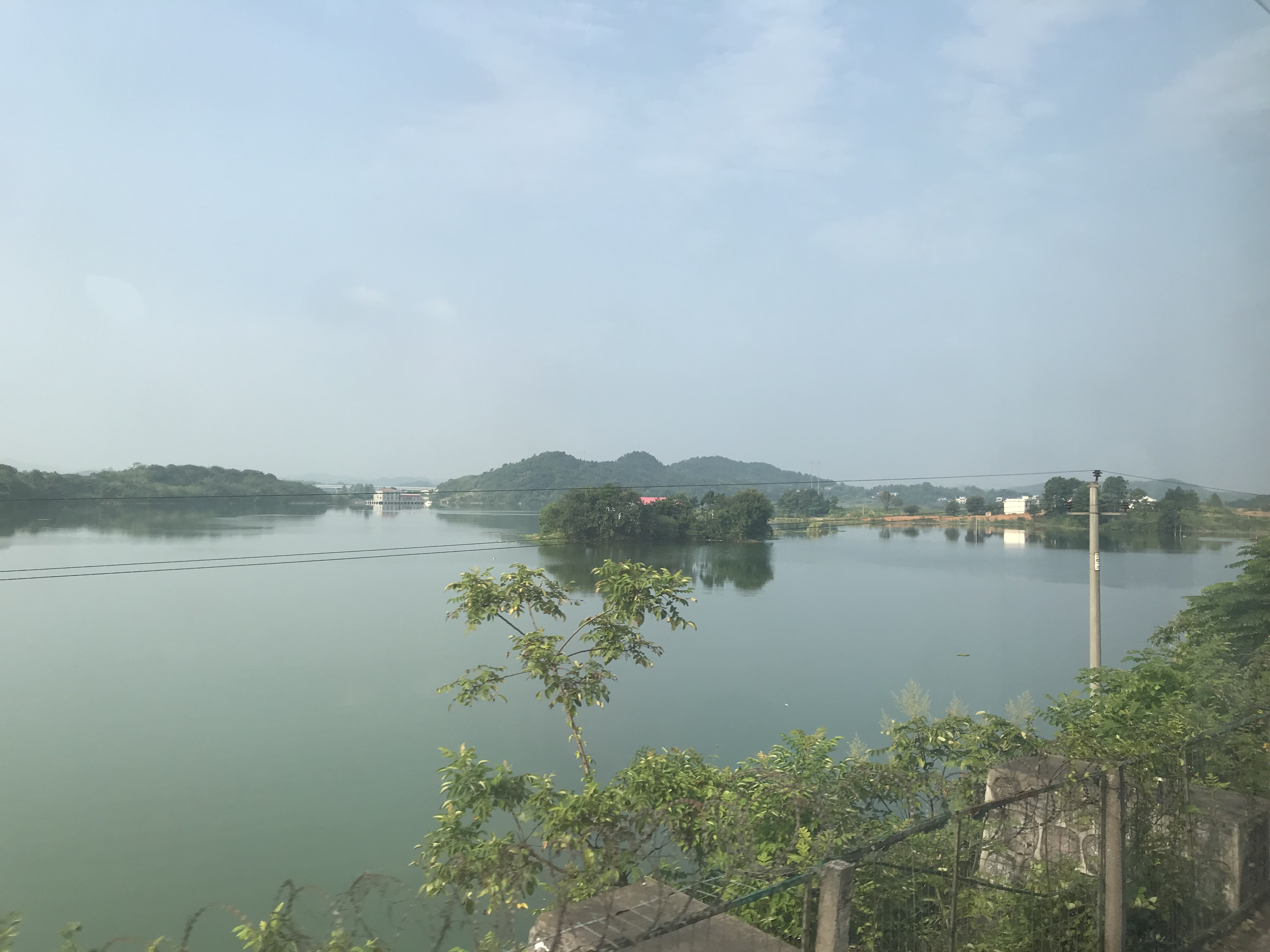 201908 River Lian Reservoir in Qizi, Xiangxiang